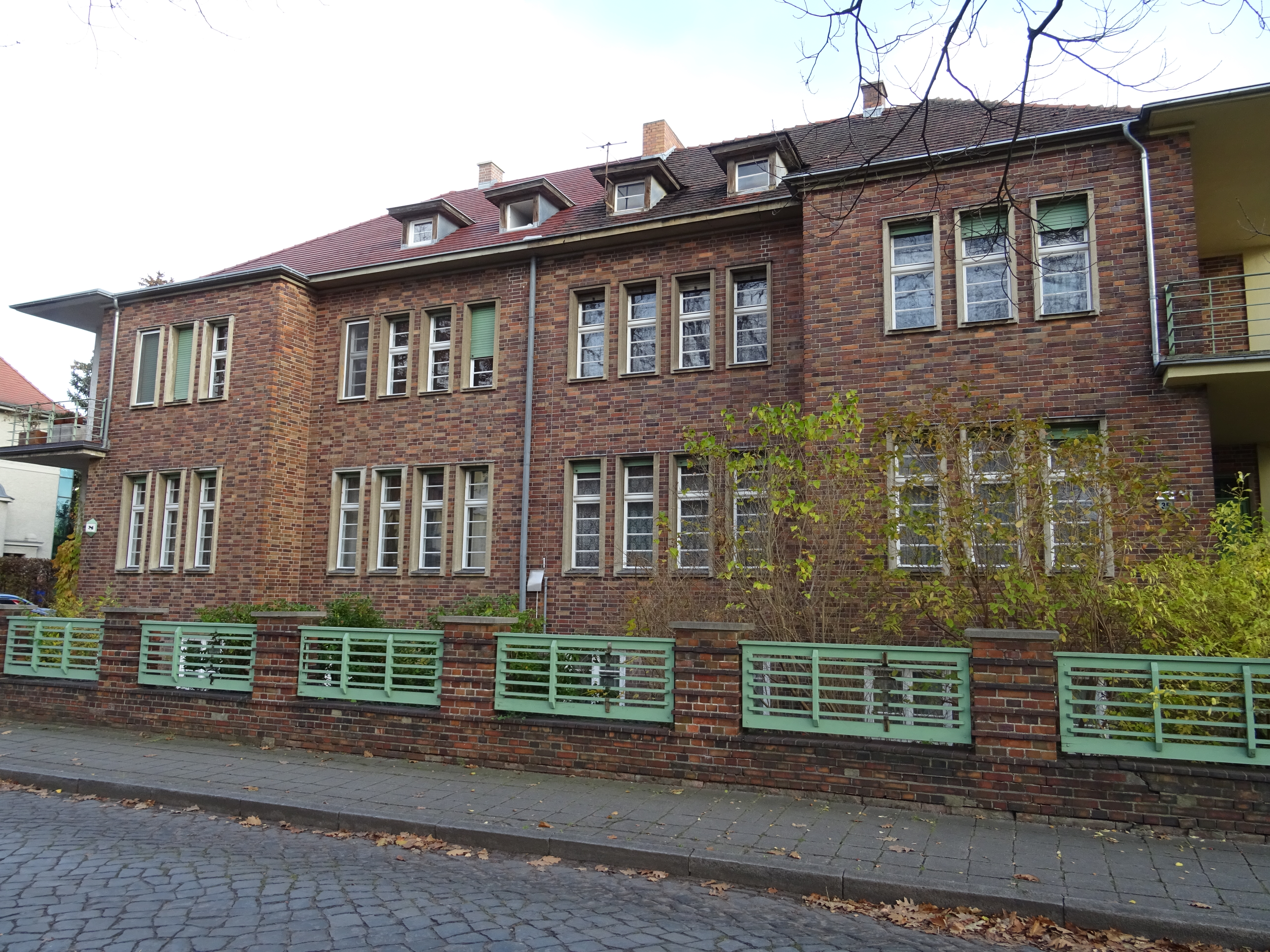 Semi-detached house in Seminarstraße 34/35 in Cottbus.